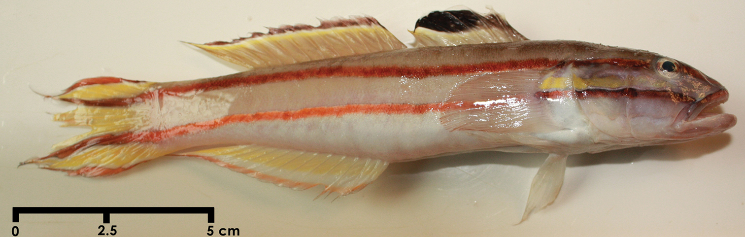 Valenciennea helsdingenii, 145 mm SL from the Gulf of Mannar, southeast coast of India.